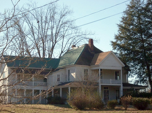 Cline Home across from main entrance of Reinhardt College